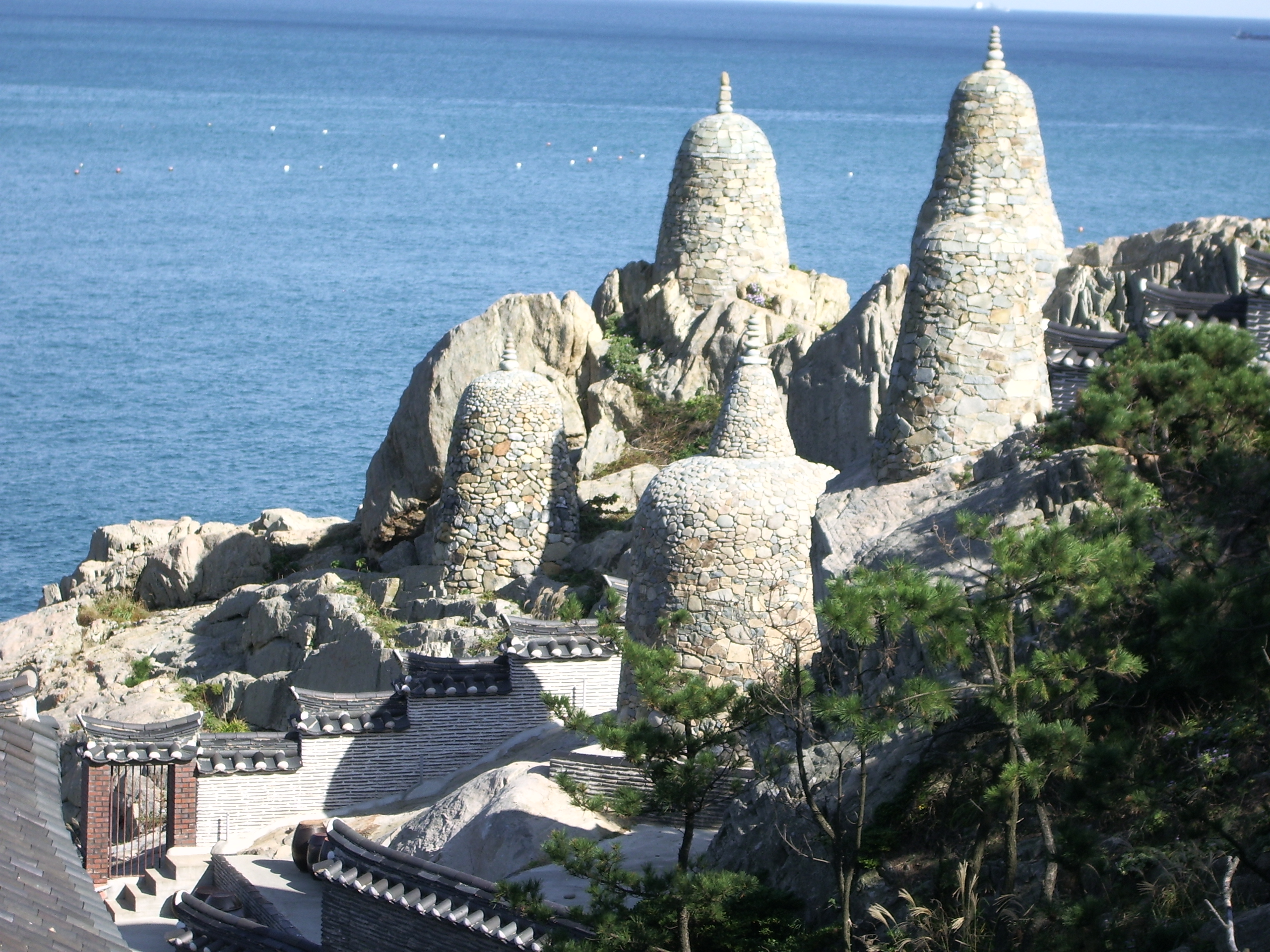 Haedong Yonggungsa Temple, a Buddhist temple near Busan, Korea. View from temple onto the sea. 해동용궁사. 부산광역시 기장군 소재.